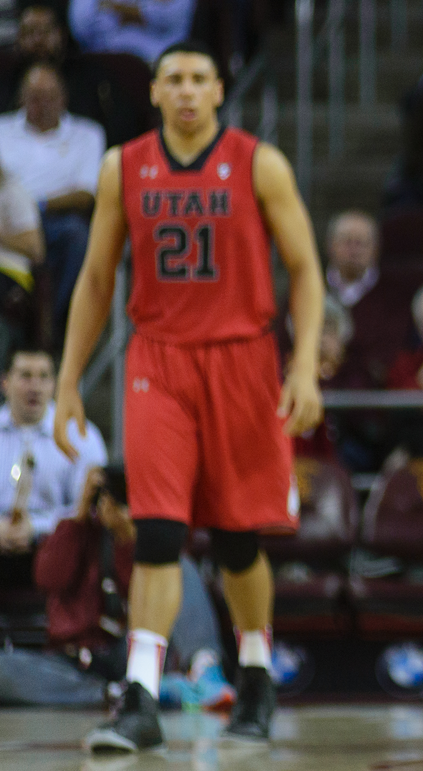 Byron Wesley playing against Utah.